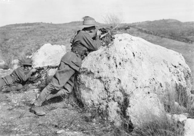 Two snipers of the 3rd Australian Light Horse Regiment on the 'look-out' at Khurbetha-Ibn-Harith. The Turkish position was on the ridge opposite.